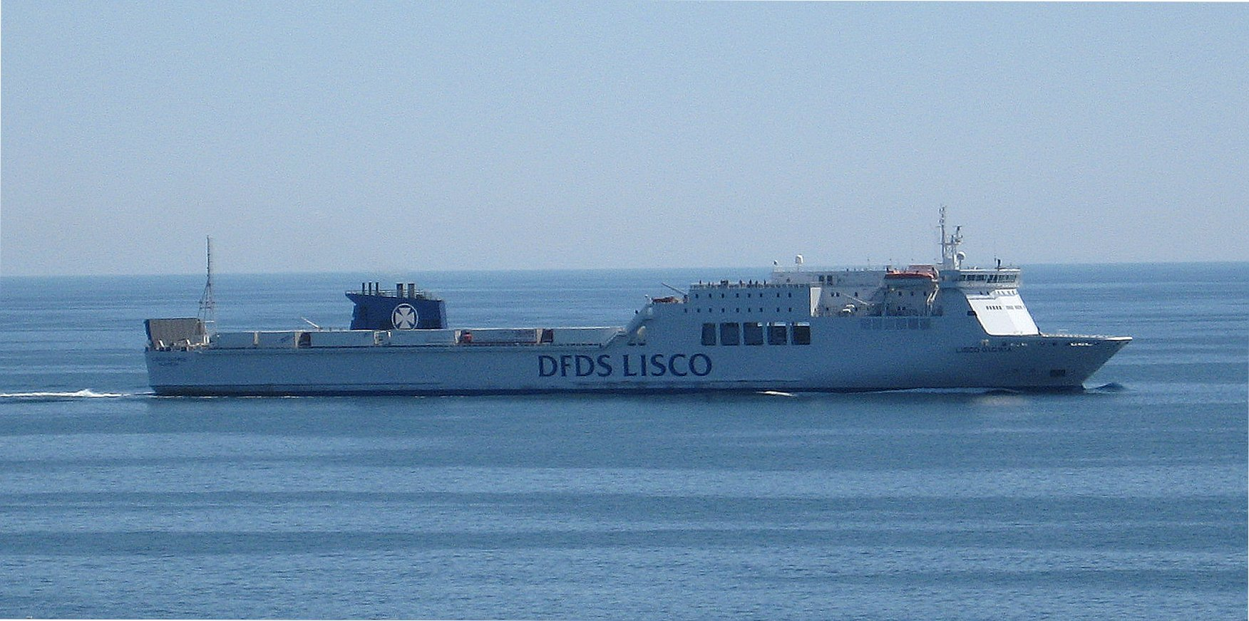 Lithuanian ropax-ship M/S Lisco Gloria in the Baltic Sea.